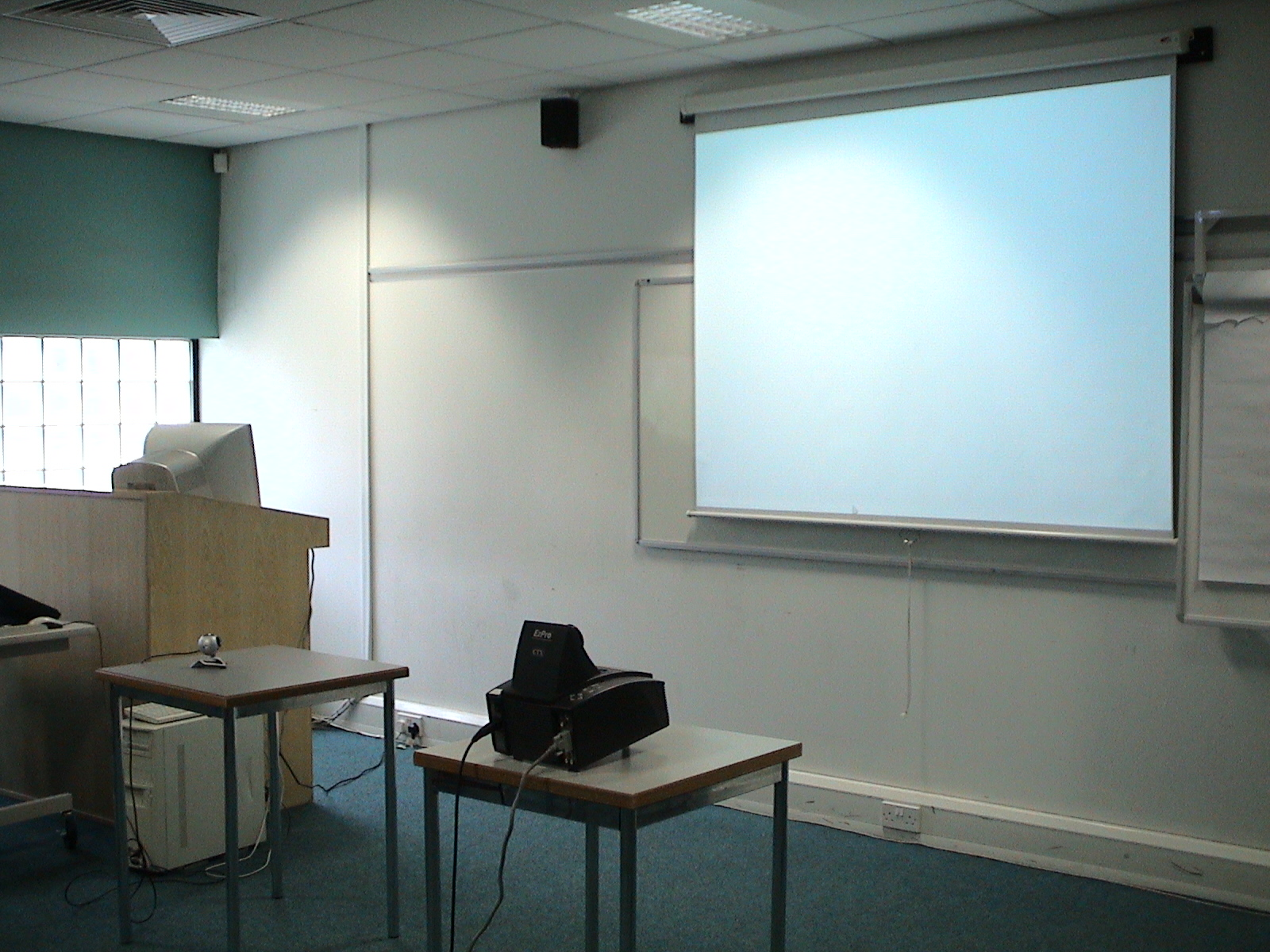 Interactive camera-projector system.